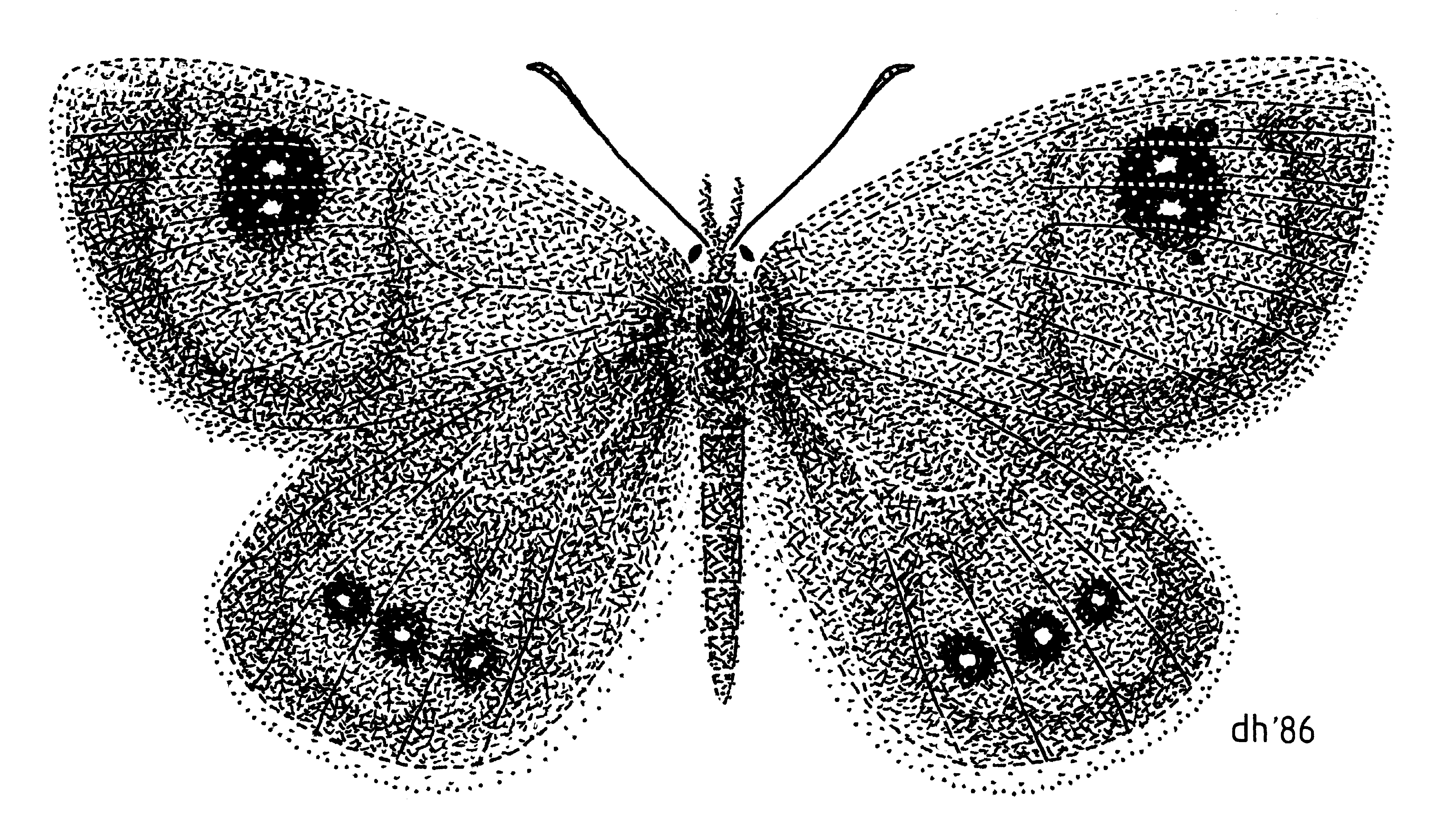 (Lepidoptera: Nymphalidae) Argyrophenga antipodum Tussock Ringlet illustrated by Des Helmore.